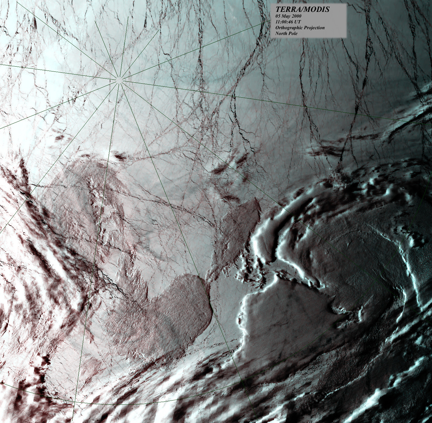 North pole from MODIS on Terra, see [1], [2], [3]